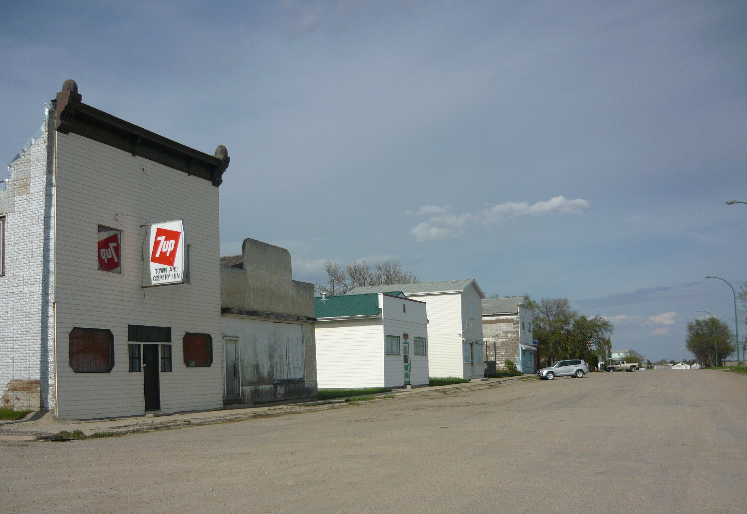 Amherst Avenue (taken at intersection of Carlton Street), looking eastward. Amherst Avenue is the main business street of Viscount, Saskatchewan, Canada